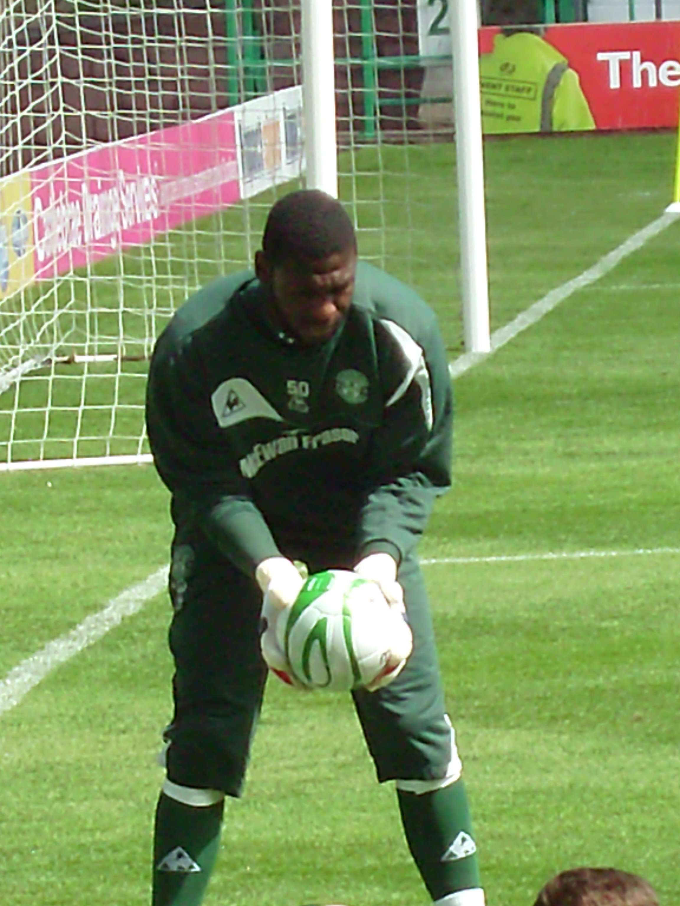 Hibernian goalkeeper Yves Makalambay. Picture taken during a club open day at Easter Road on 2 August 2009.